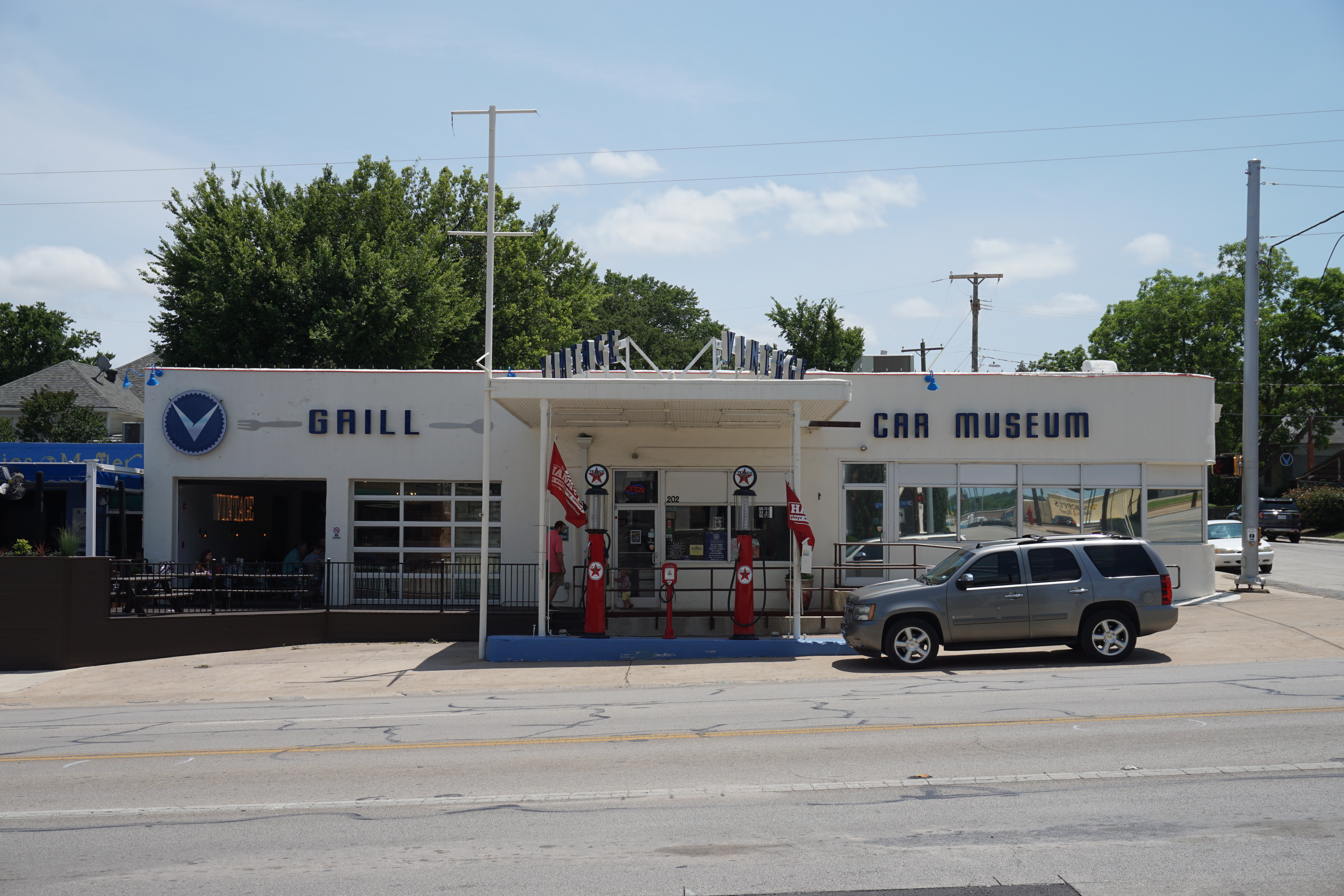 The exterior of the Vintage Grill & Car Museum in Weatherford, Texas (United States).